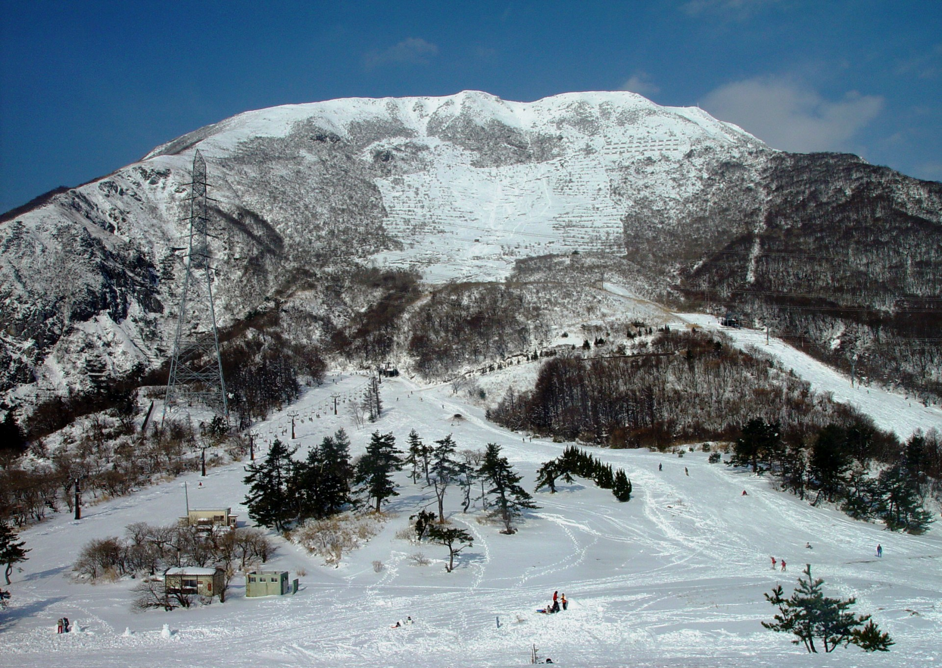 Mount Ibuki Ski resort